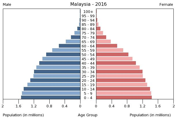 The population pyramid of Malaysia illustrates the age and sex structure of population and may provide insights about political and social stability, as well as economic development. The population is distributed along the horizontal axis, with males shown on the left and females on the right. The male and female populations are broken down into 5-year age groups represented as horizontal bars along the vertical axis, with the youngest age groups at the bottom and the oldest at the top. The shape of the population pyramid gradually evolves over time based on fertility, mortality, and international migration trends.